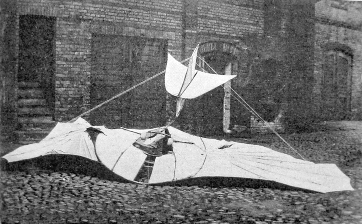 Otto Lilienthal's damaged Normalsegelapparat after his last flight.